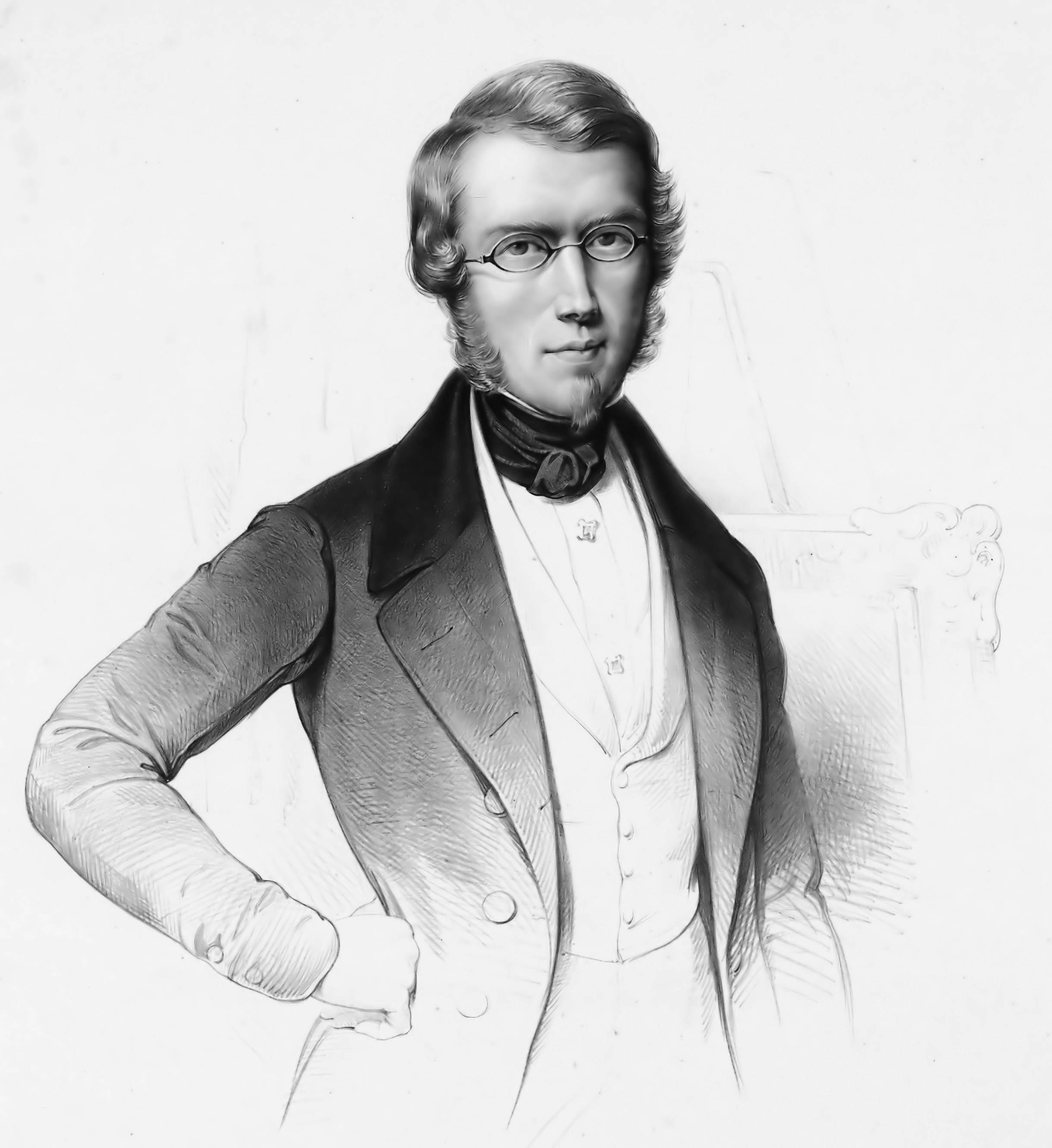 Abraham Johannes Couwenberg Jzn. 1844